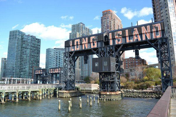 Long Island City's high rises.